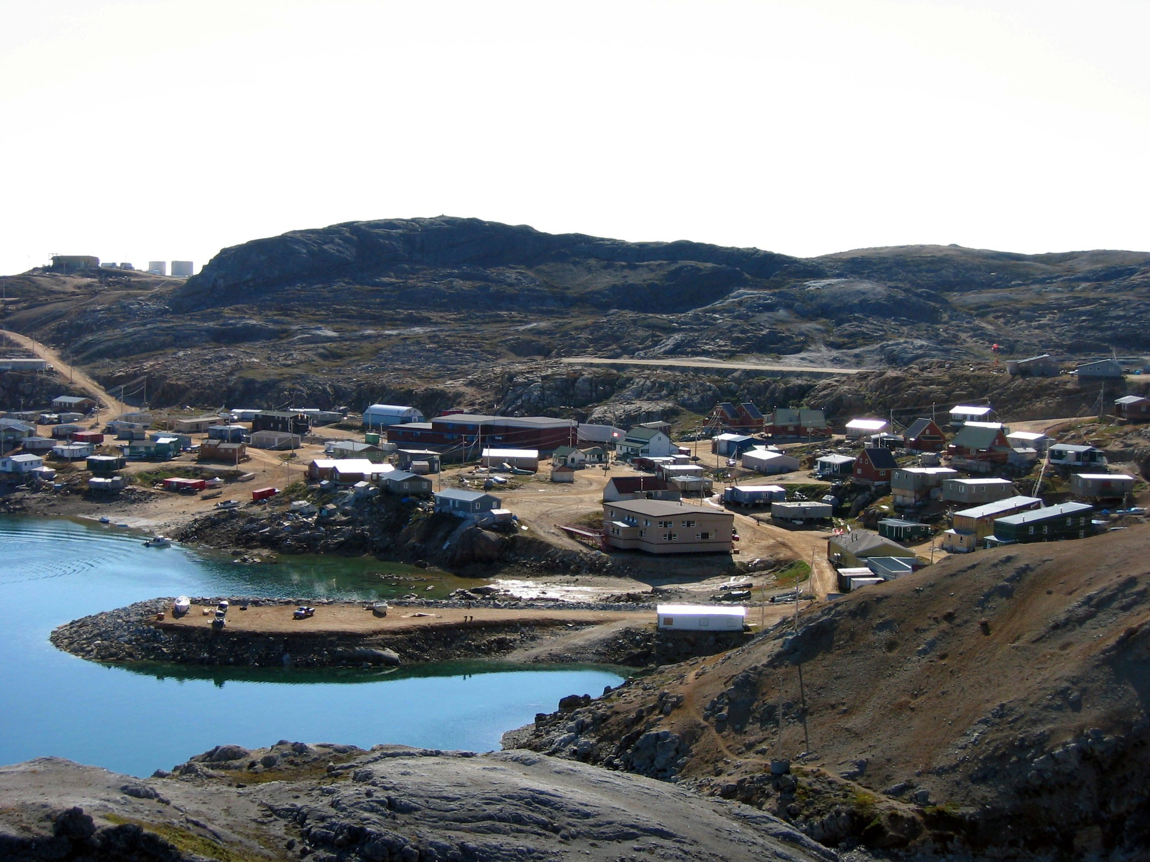 photograph of Kimmirut Nunuvut Canada --Wei ni hao 17:29, 1 January 2006 (UTC)morgan Kimmirut population of approx. 400 people, over 90% inuit. Image originaly uploaded as Image:C-\Documents and Settings\cfstc\My Documents\My Pictures\IMG 1161.JPG.jpg, additional summary info taken from the low-res duplicate Image:Kimmirut.JPG uploaded by same user.